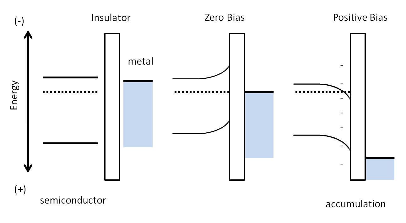 Schematic graphs of band-bending in the TFT device model